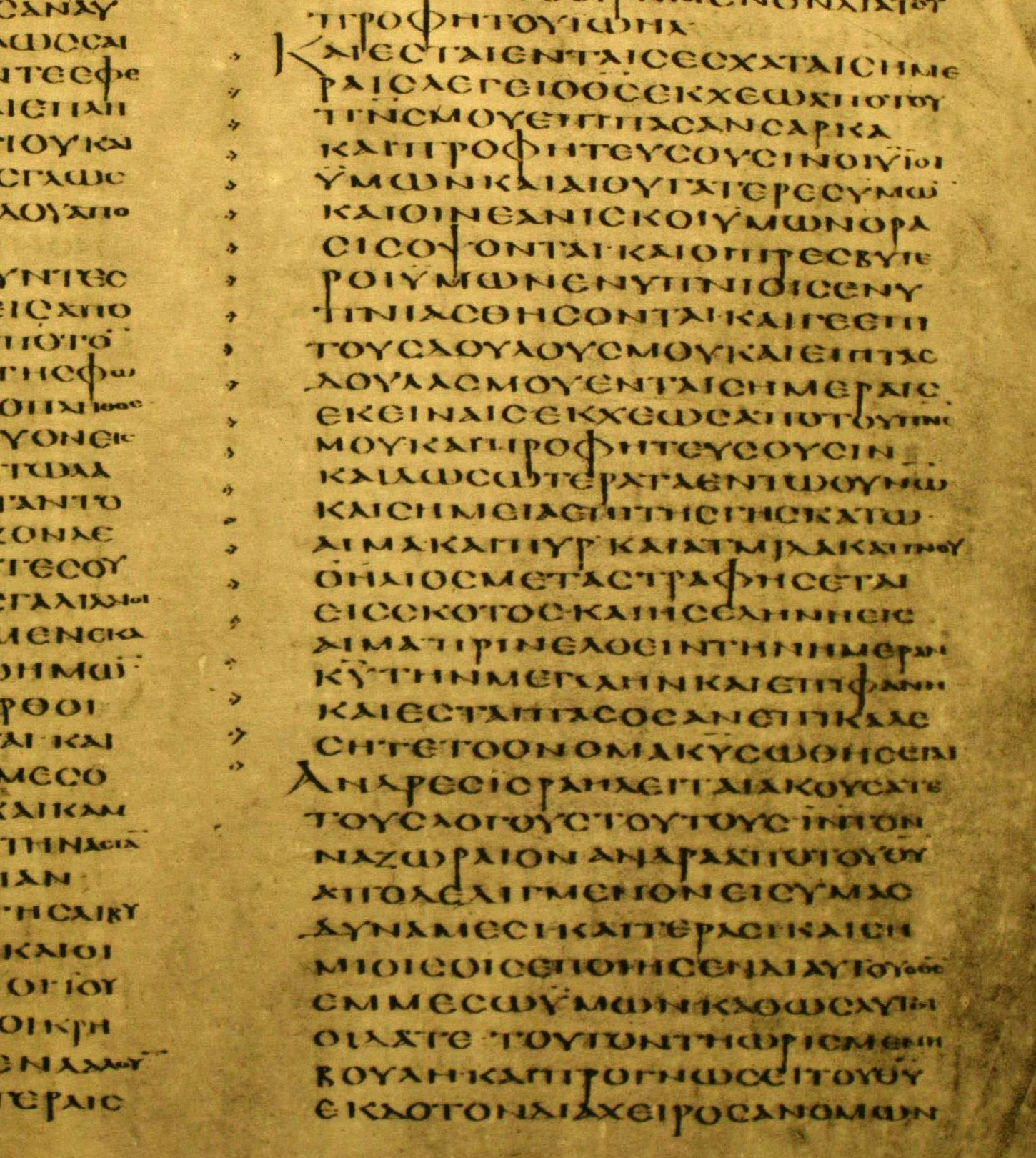 text of the Acts of the Apostles 2:17-21 with passage cited from the Old Testament marked by inverted comma